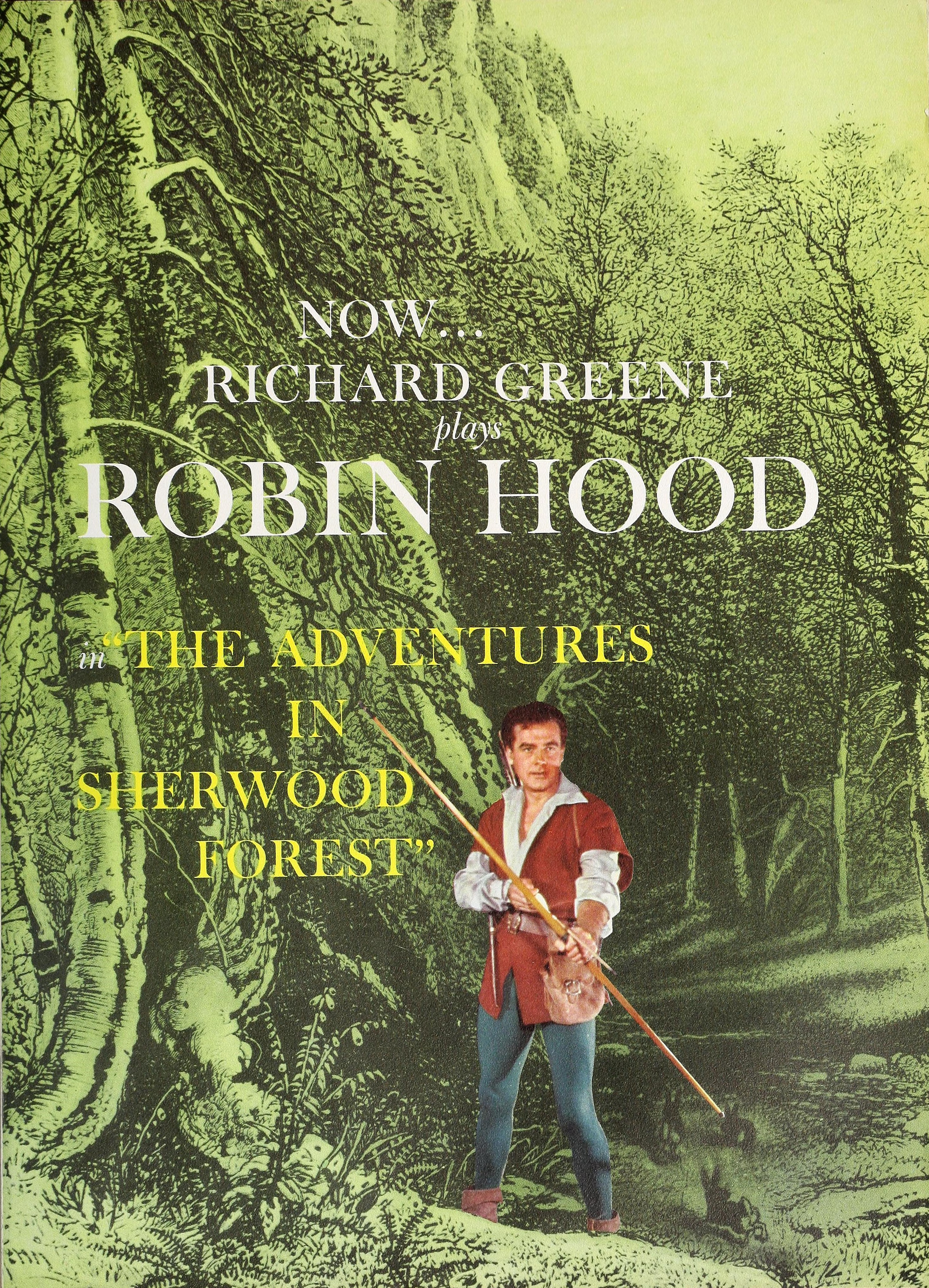 The Adventures in Sherwood Forest was an alternate name for The Adventures of Robin Hood